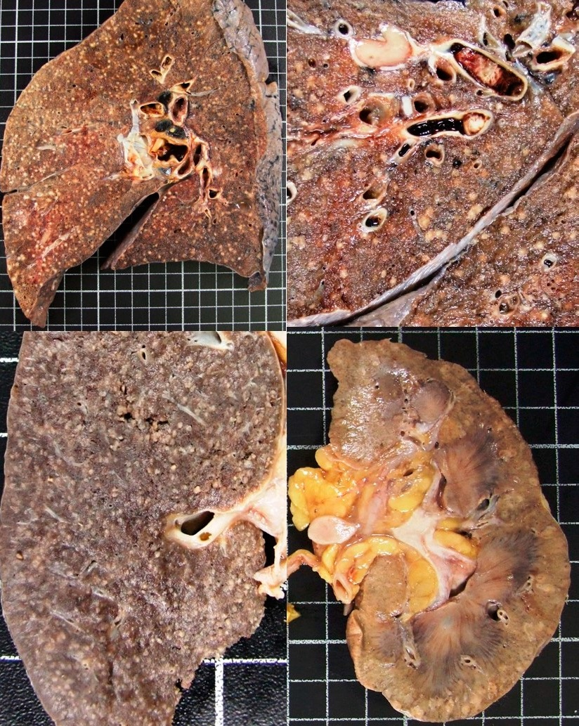 Gross pathology of miliary tuberculosis having caused the death of a 82-year-old female. It shows micronodules (1–4 mm in diameter) which resemble millet seeds. From the same case (edit): X-ray, 13 days after onset, showing bilateral interstitial infiltrates. CT, 16 days after onset, showing extensive pulmonary parenchymal involvement consisting of irregular septal thickenings with ground-glass areas and centrilobular nodules with a peri-lymphatic distribution. X-ray, 22 days after onset, showing extensive bilateral reticulo-nodular infiltrates Gross pathology Microscopy, showing epithelioid granulomas with multinucleated giant cells and acid-fast bacilli.